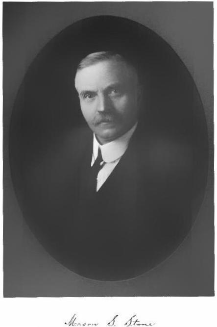 Mason S. Stone (December 14, 1859—July 13, 1940) was a Vermont educator who served as state Superintendent of Education. From 1919 to 1921 he was Lieutenant Governor of Vermont.